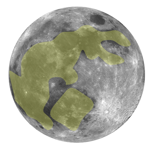 Based on the public domain moon image from image:Luna_nearside.jpg and information on the web: [1] The rabbit stands by either a cooking pot or a mochi mortar.